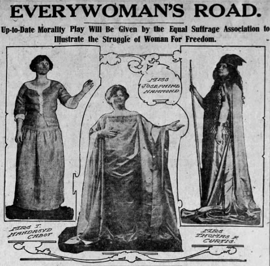 Clipping from a Boston Globe article dated March 16, 1913, about a play staged by the Boston Equal Suffrage Association for Good Government to raise funds for the Woman's Journal.